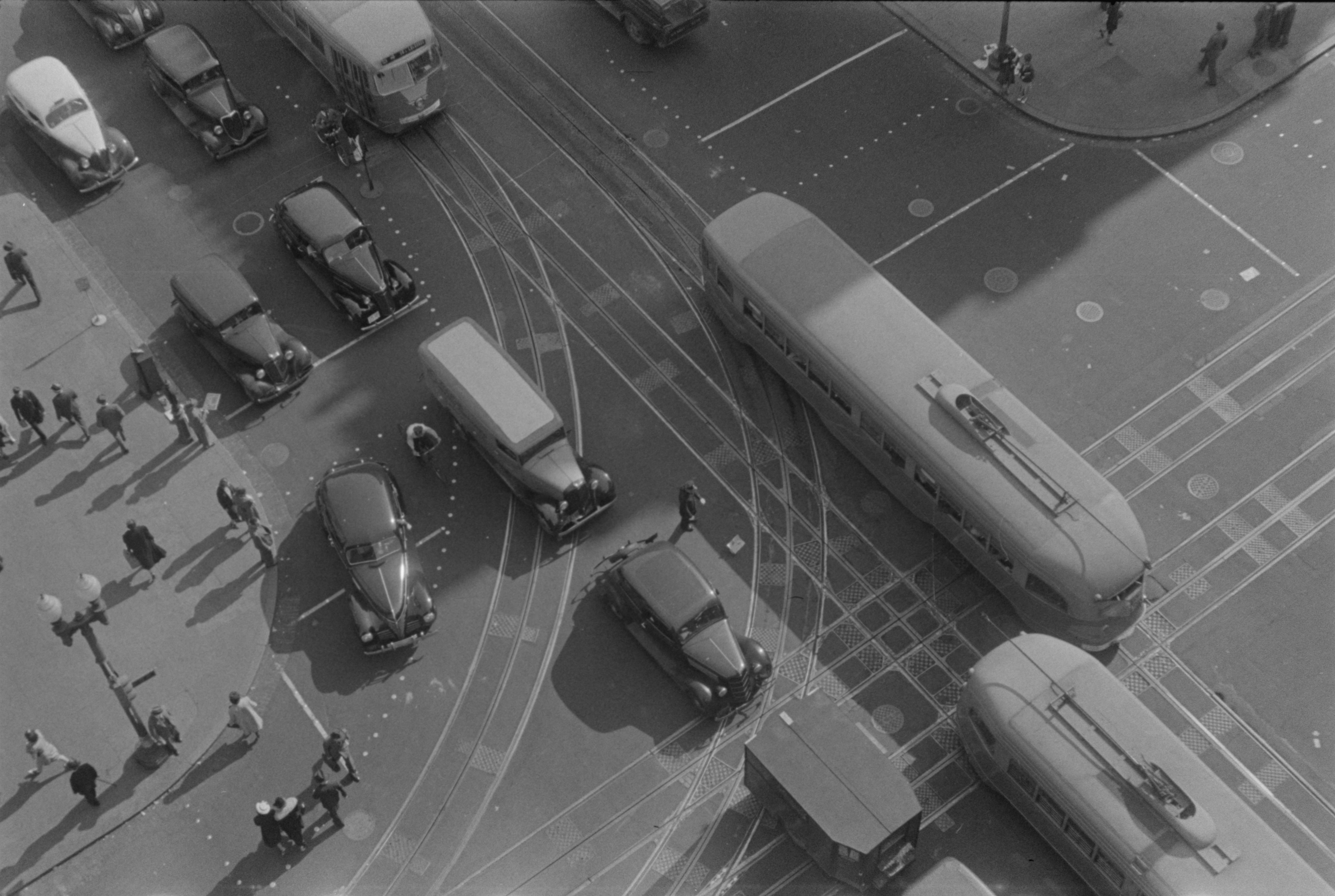 Washington, D.C. Aerial view of a street corner, in front of the Willard Hotel, at 14th Street and Pennsylvania Avenue showing pedestrians and rather dense traffic in autos and street cars